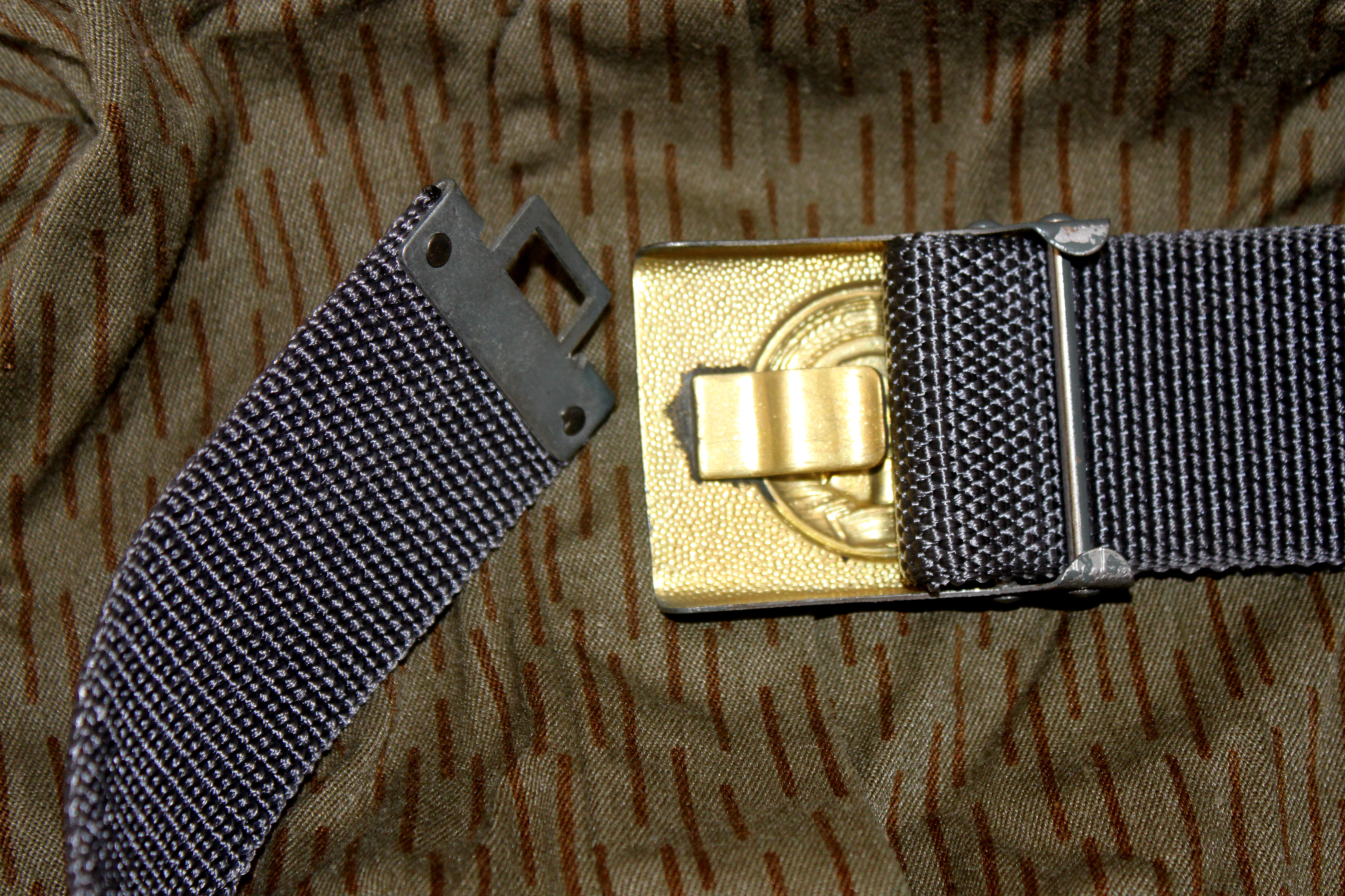 belt buckle of the East German Armed forces (Nationale Volksarmee: NVA) - Battle Dress Uniform -backside